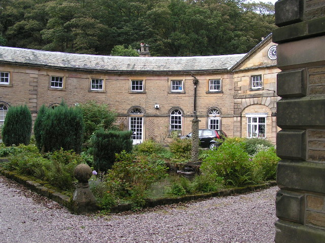 Park Hall Stables. "Fine semicircular stables with end pediments" - Nikolaus Pevsner, The Buildings of England: Derbyshire.